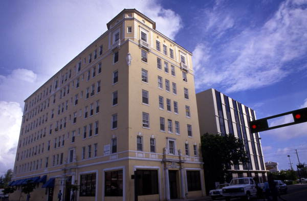 Dixie Court Hotel, West Palm Beach, Florida Department of Commerce collection , Series 1047, Box 5, Folder 19